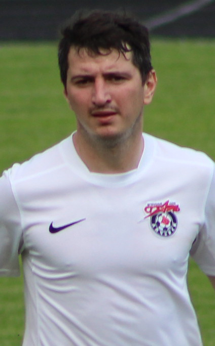 Oleksandr Akymenko